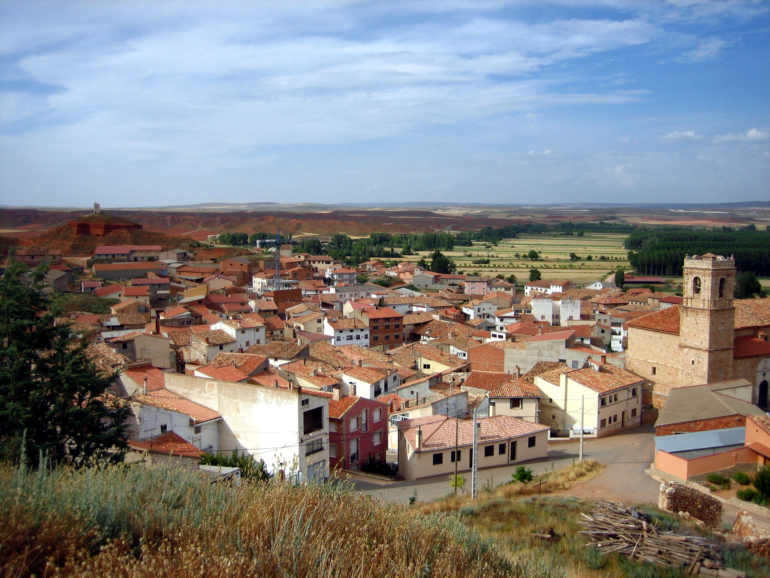 Alfambra , Teruel, Sapin